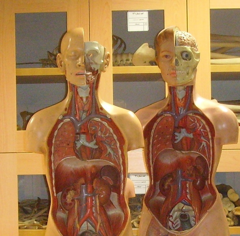 Anatomical Moulages (anatomical model in moulage room of medical school).